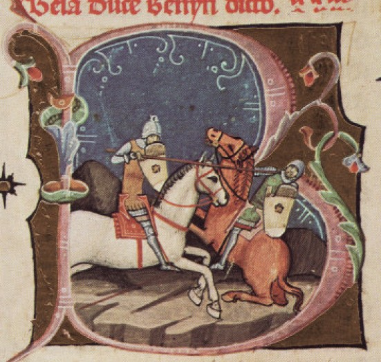 Chronicon Pictum Béla I of Hungary (yet as prince at that time) fighting a pomeranian warrior.